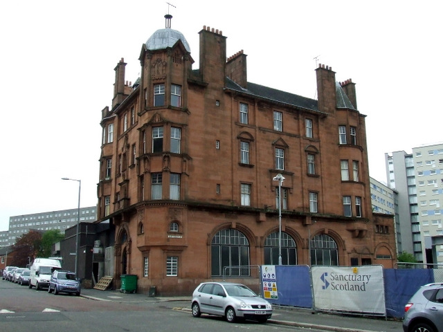 Former Savings Bank of Glasgow